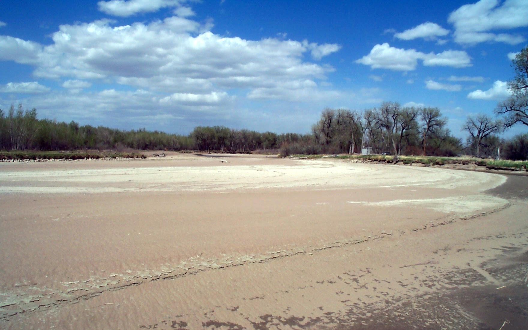 Dry stream channel during drought conditions, North Platte River in Goshen County, Wyoming, near Wyoming-Nebraska state line.